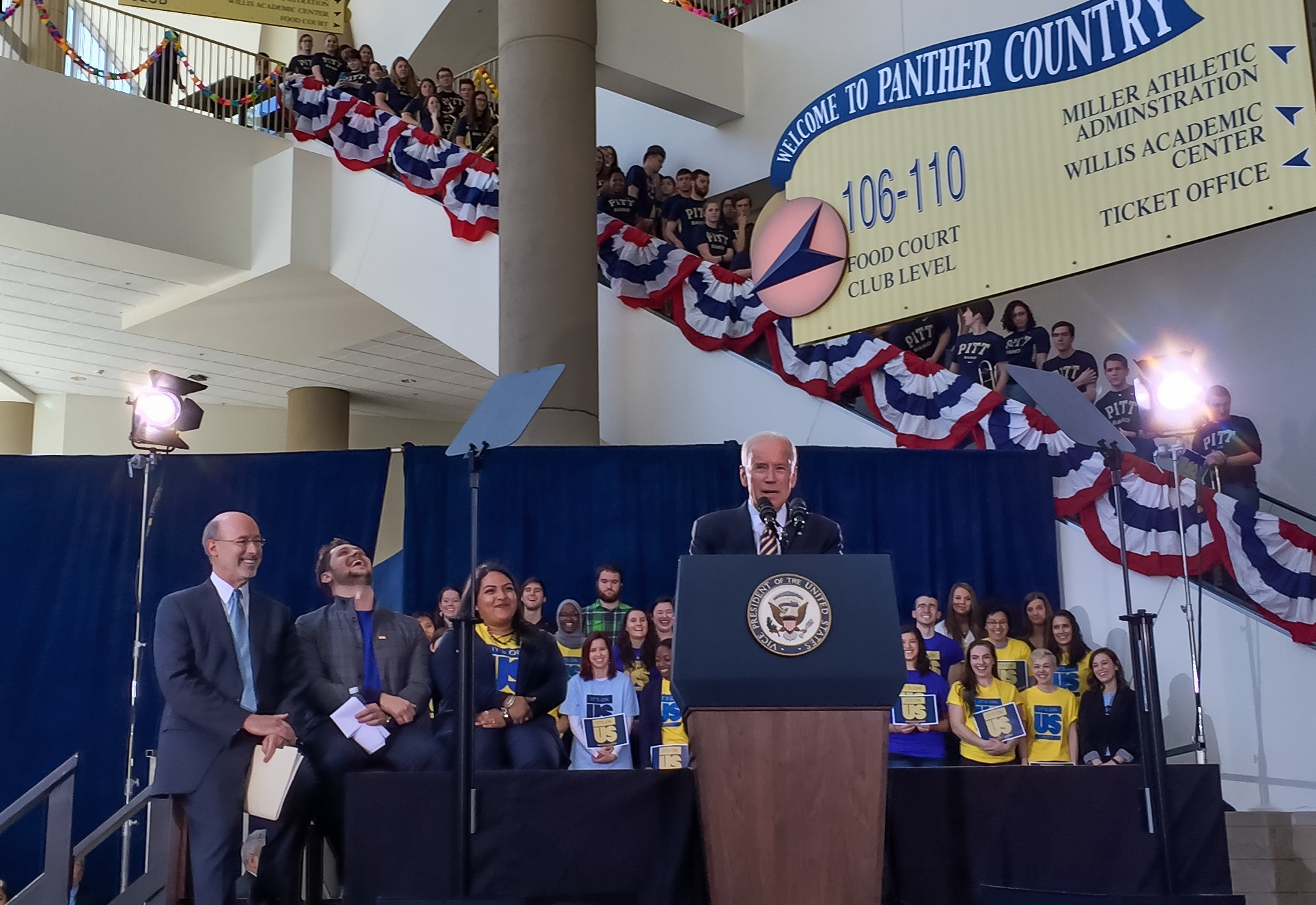 Vice President Joe Biden speaks at the University of Pittsburgh